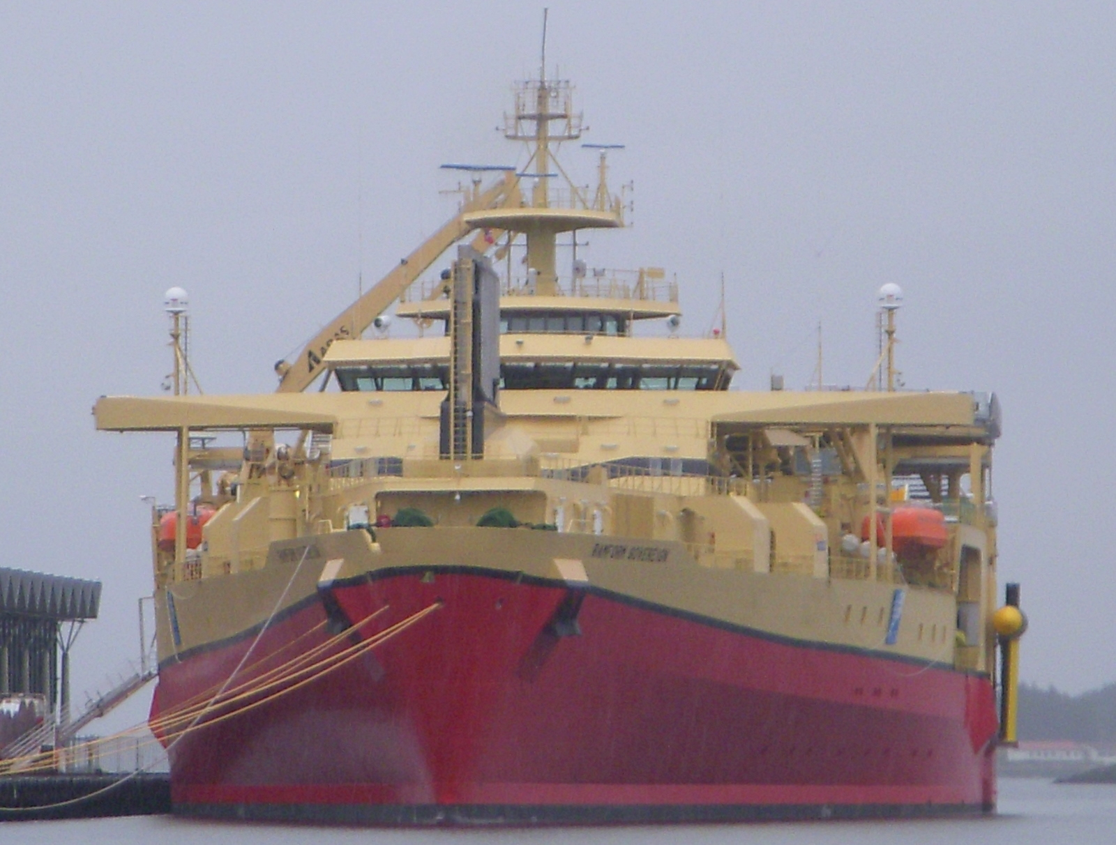 Picture of seimsic survey vessel Ramform Sovereign in Stavanger, Norway